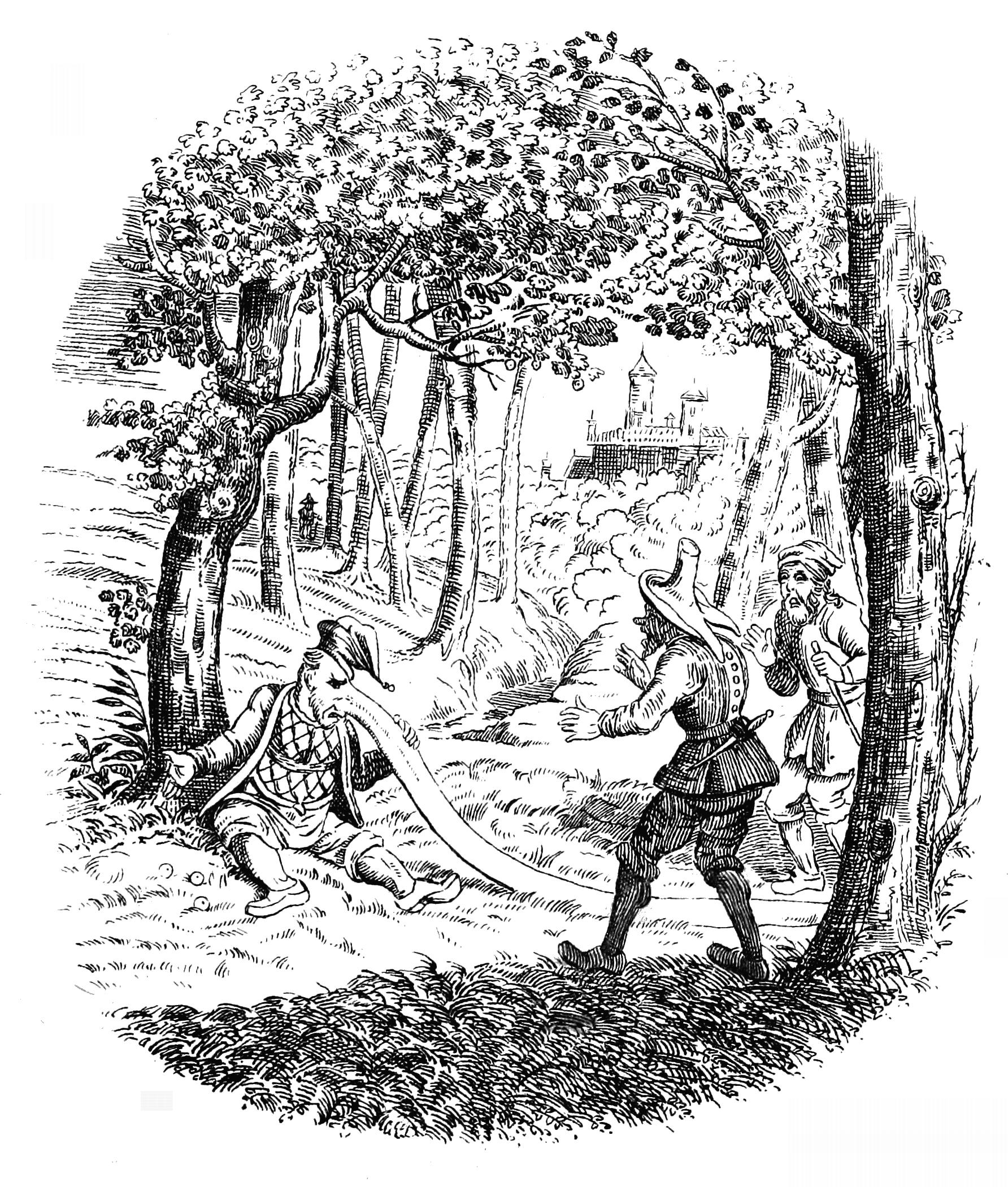 Illustration for a Grimm fairy tale